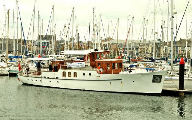 The "Llanthony" at Bangor The 1934-built motor yacht “Llanthony” was one of the “small ships” which helped in the Dunkirk evacuation in May 1940.